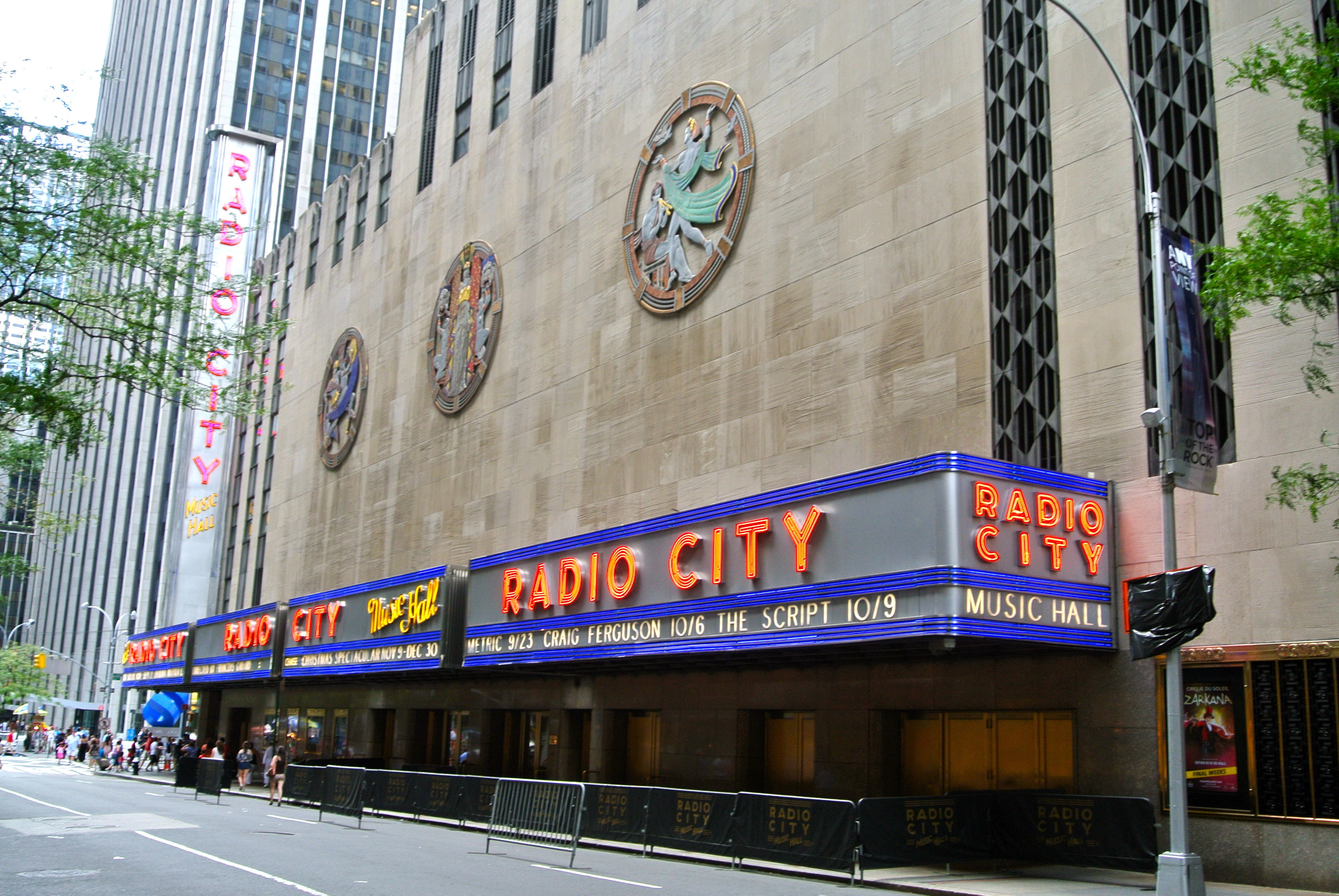 Radio City Music Hall